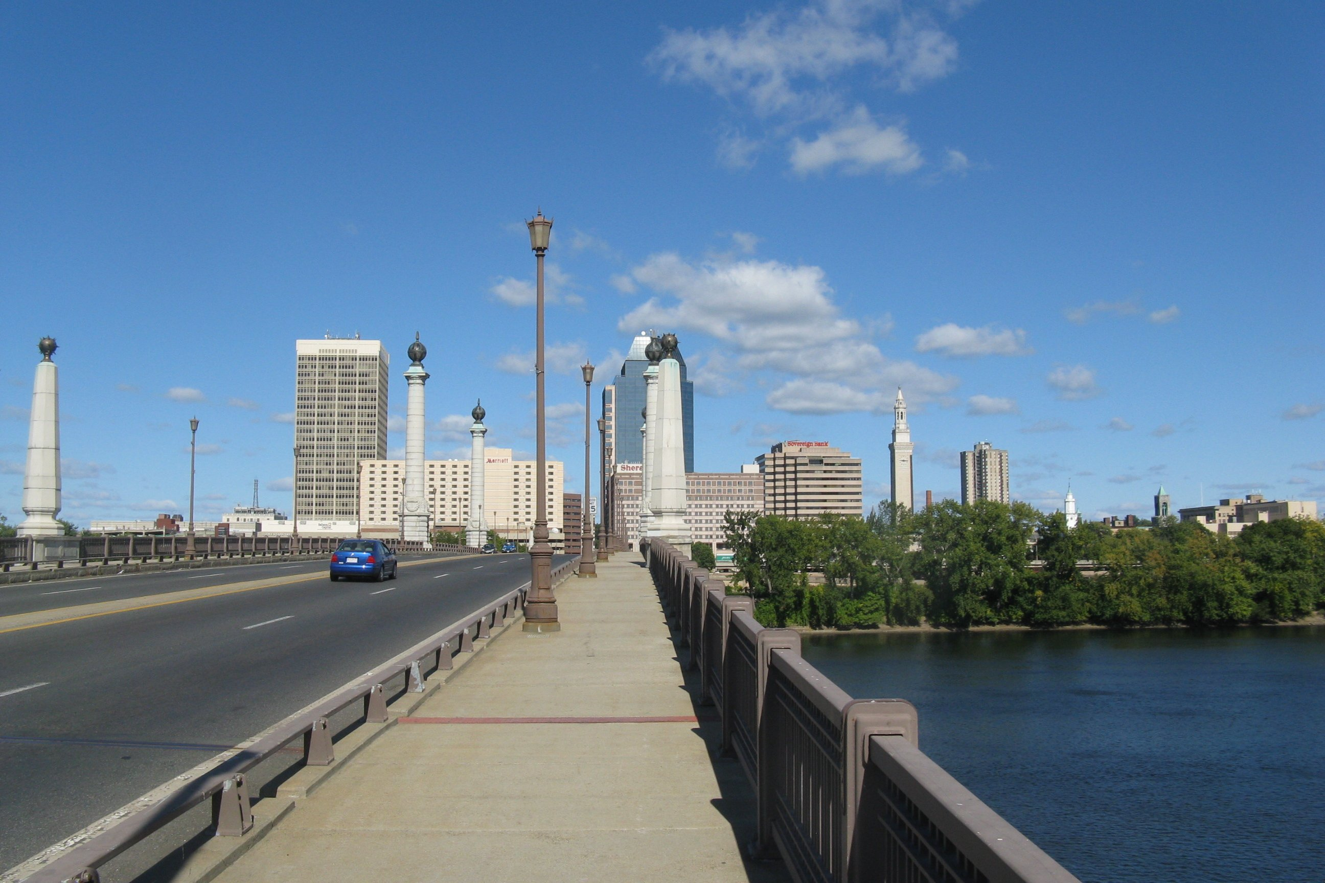 Memorial Bridge entering Springfield Massachusetts